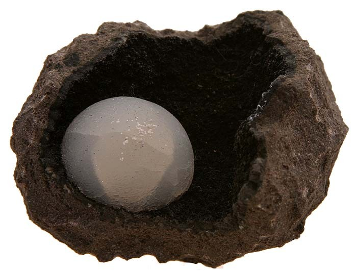 Epistilbite, Geode Locality: Pune District (Poonah District), Maharashtra, India (Locality at ) A perfect ball of Epistilbite , 2.2 cm across, nestled in the vug in which it formed like an egg in a nest! Wonderful! 5.2 x 4.5 x 3.5 cm